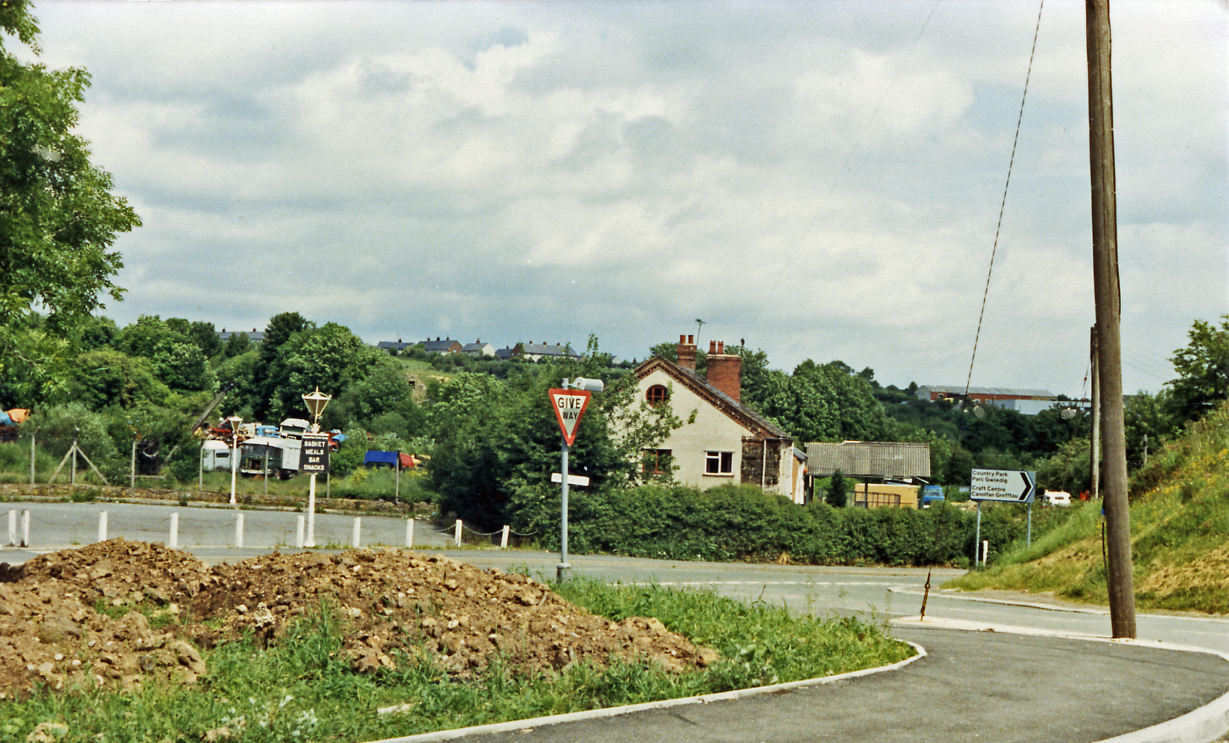 Site of Coed Talon station, 1986, View NE on A5104, at the former crossing of the LNW & GW Joint line from Mold (left) to Brymbo (right). Nothing whatever is to be seen now relating to the railway, the line having been closed finally on 22/7/63, to passengers from 27/3/50.